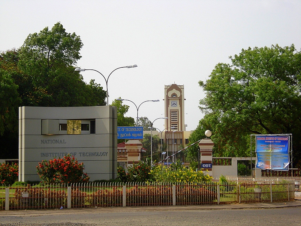 National Institute of Technology, Tricky